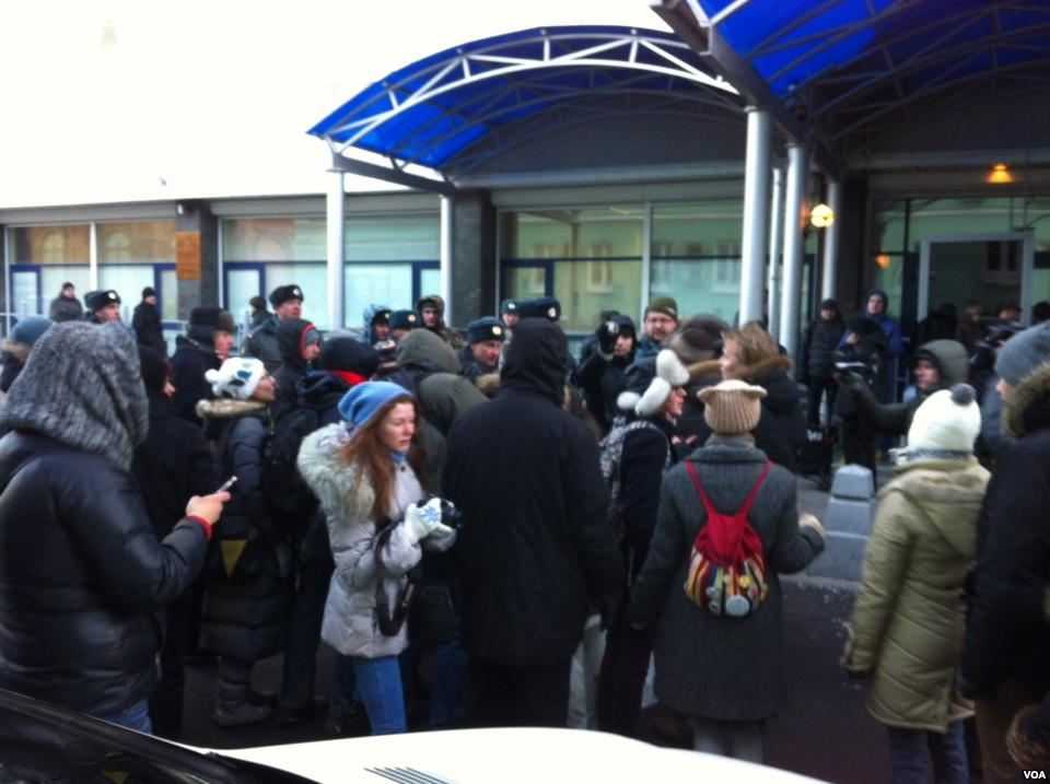 The action of the LGBT community in the State Duma. December 19, 2012.